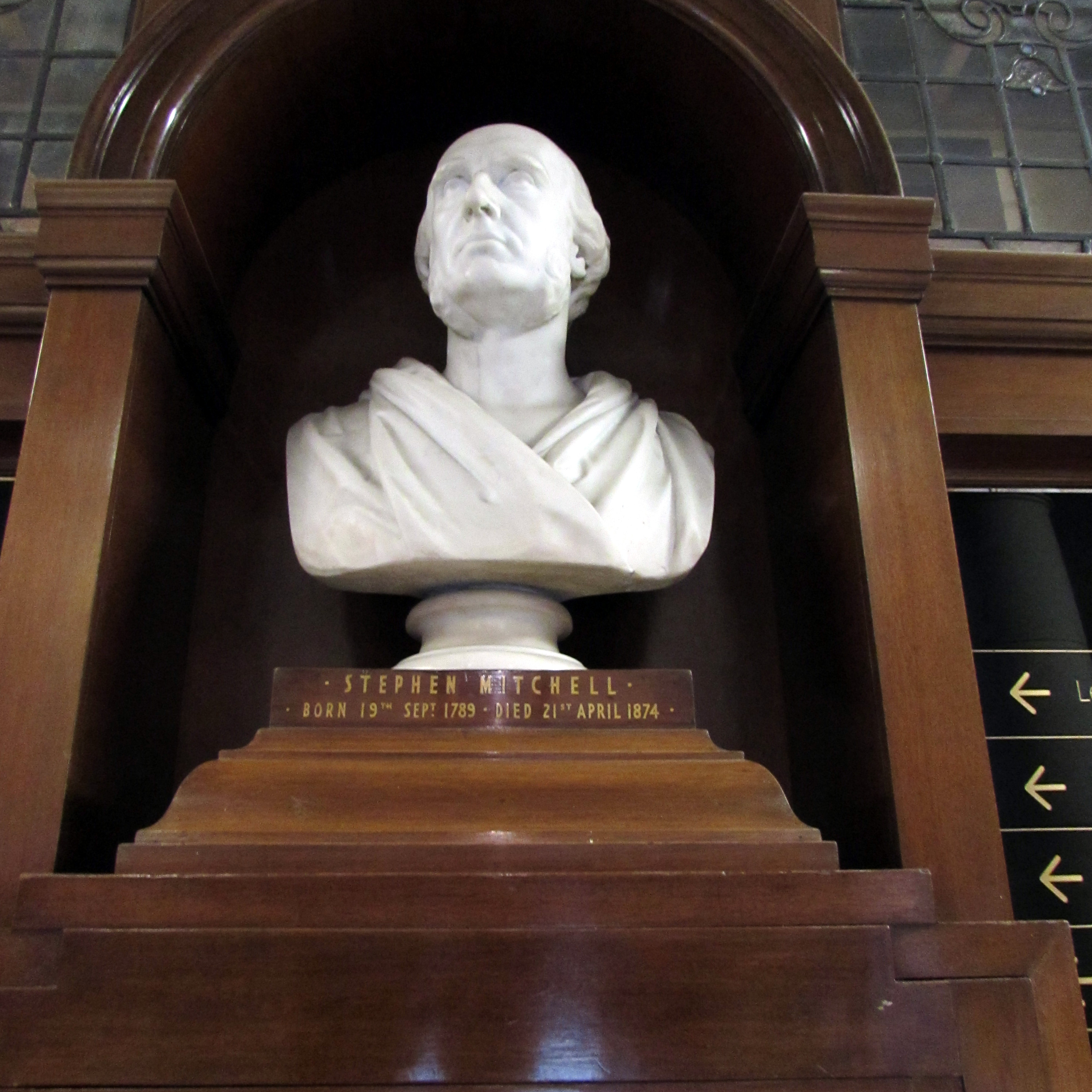 Stephen Mitchell was the founder of the great Glasgow library that bears his name. A successful tobacco manufacturer, his company was eventually incorporated into the Imperial Tobacco Company. The commemorative portrait bust by sculptor, John Mossman, is located at North Street in the entrance lobby of the Library and seems a very modest tribute for such a considerable benefactor. The library contains almost 1.5m volumes and is open to the public free of charge.